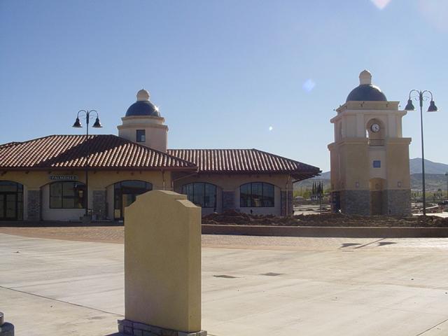 I (User:Jeremywagg) took this picture of the Palmdale Transportation Center in 2005.